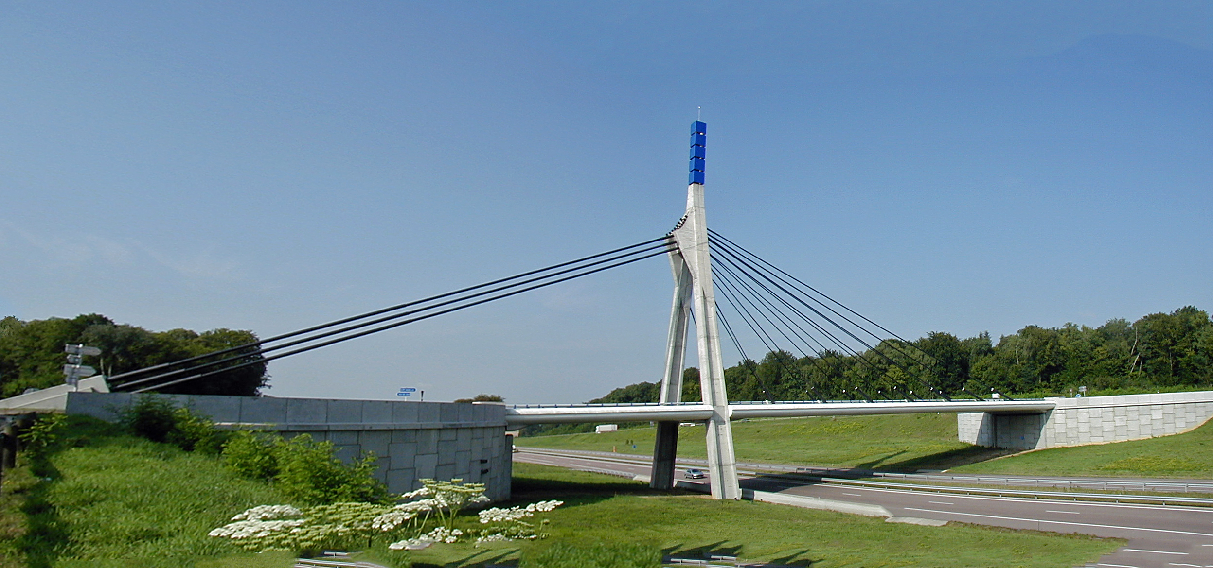 Autoroute A39 - Passage supérieur donnant l'accès à l'Aire du Jura